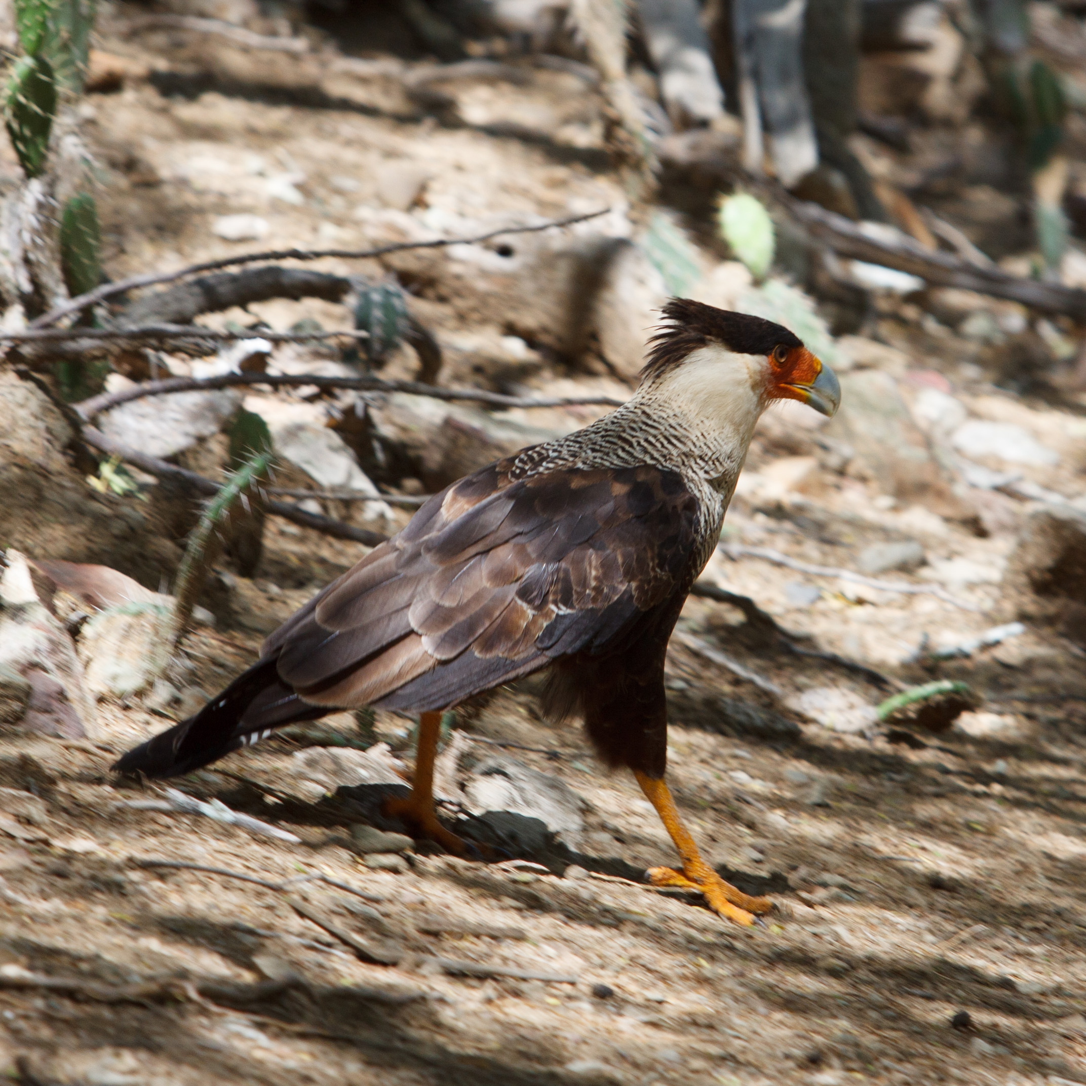 Species Polyborus plancus ;Family : Falconidae